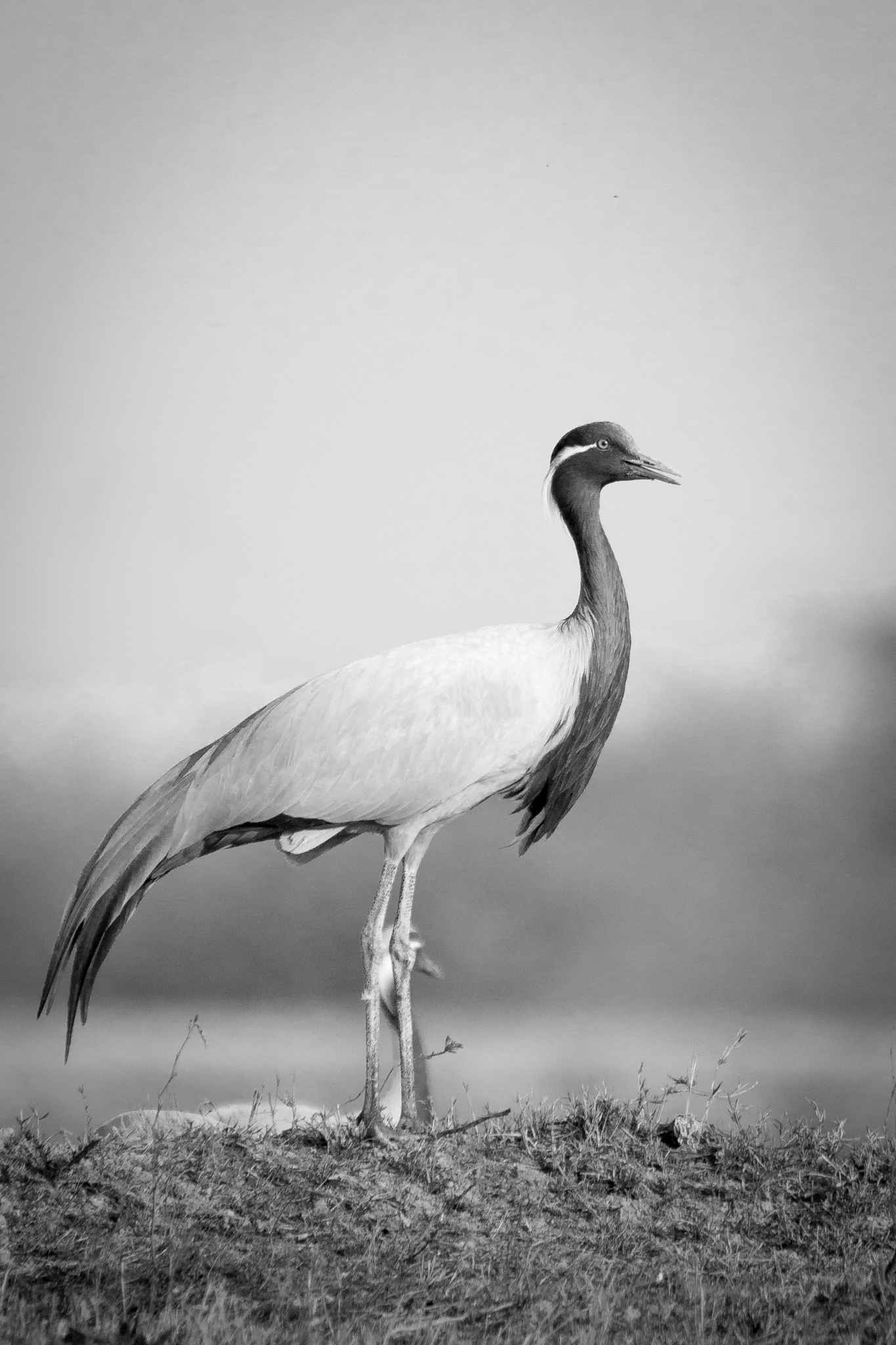 Individual from Tal Chappar, Churu, Rajasthan